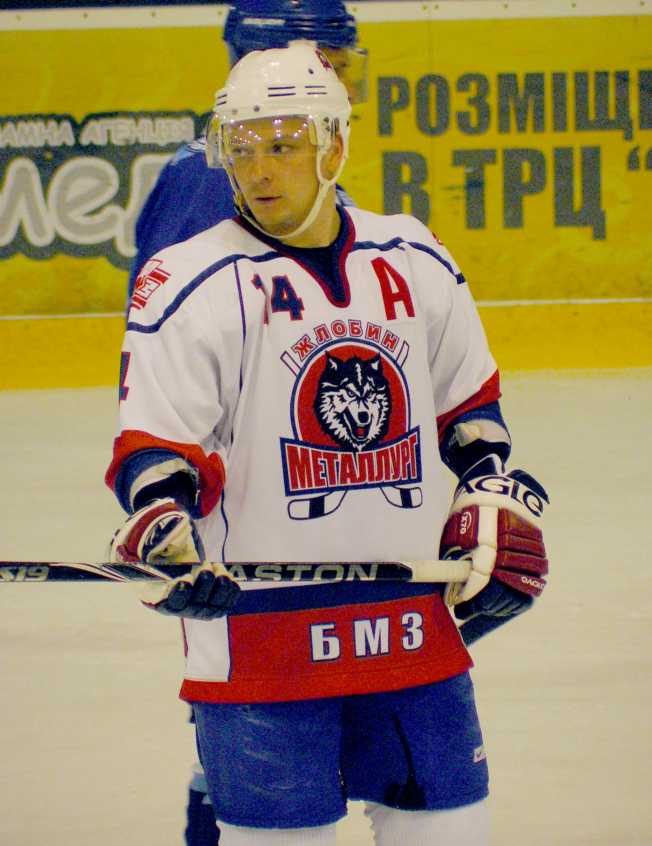 Forward Andrei Makrov #14 of the Metallurg Zhlobin during the Belarus Extraliga game against the Sokil Kyiv on October 10, 2010 at the Terminal Arena in Brovary, Ukraine. Sokil Kyiv won the game 2:1.